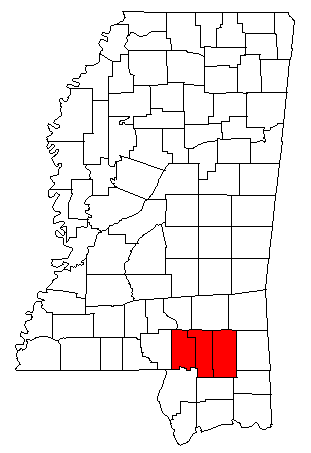 Map of Mississippi highlighting the Hattiesburg Metropolitan Area; created using the GIMP. Made by User:Acntx.